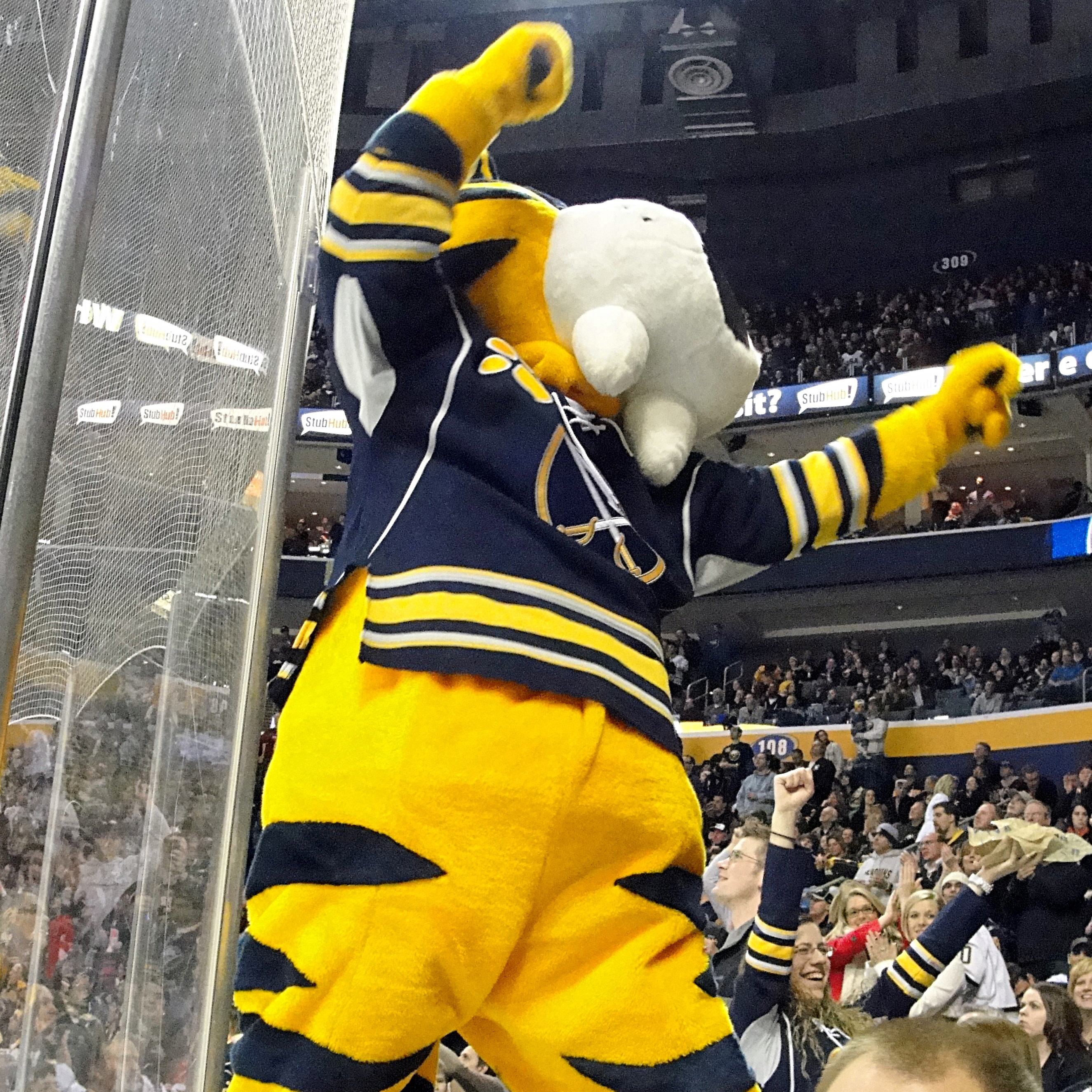 Buffalo Sabres mascot "Sabretooth" entertains the crowd during a game against the Pittsburgh Penguins at First Niagara Center in Buffalo, NY, February 19, 2012.